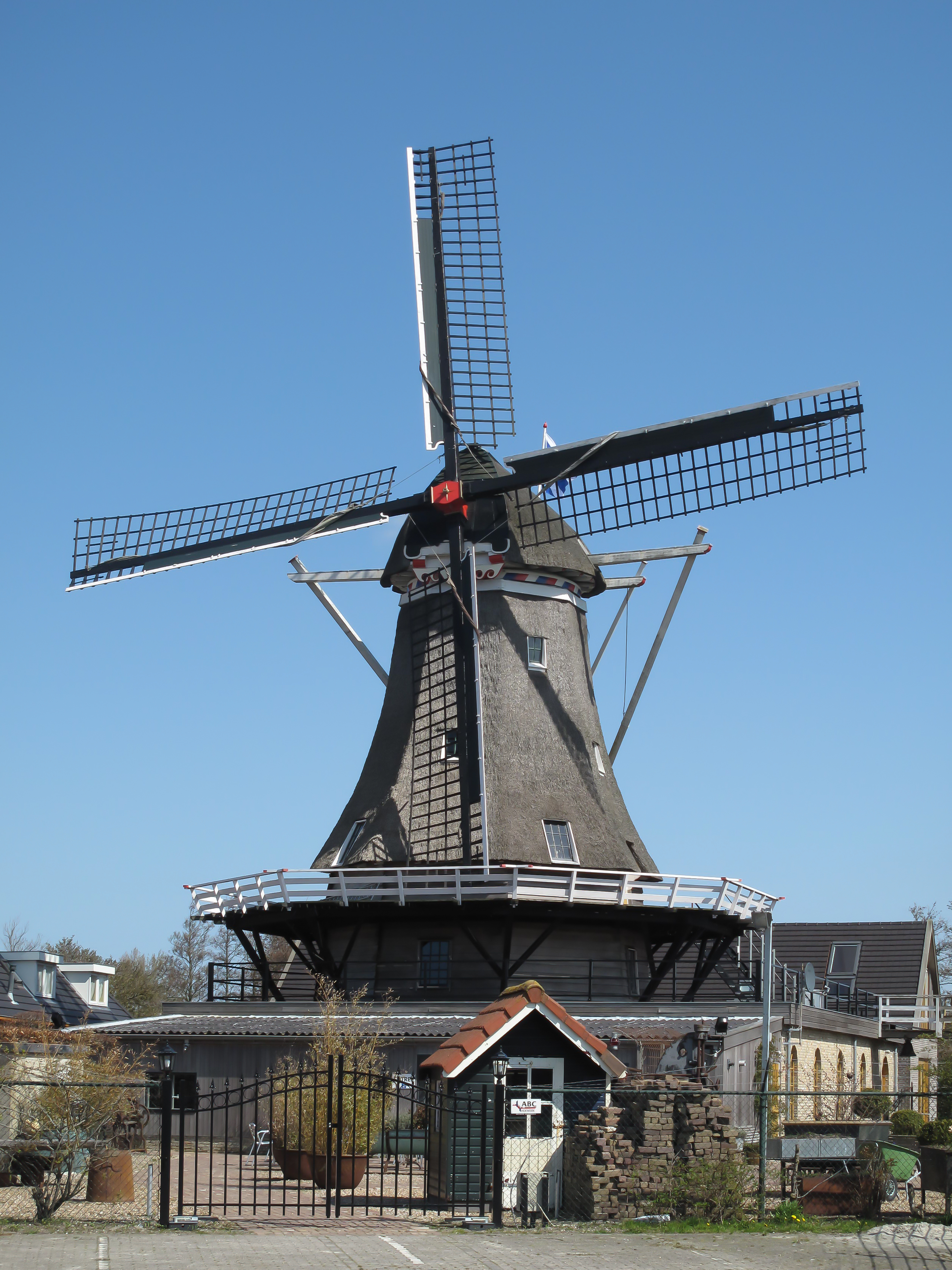 Sexbierum, windmill